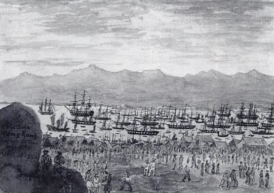 Watercolour of Victoria, Hong Kong.